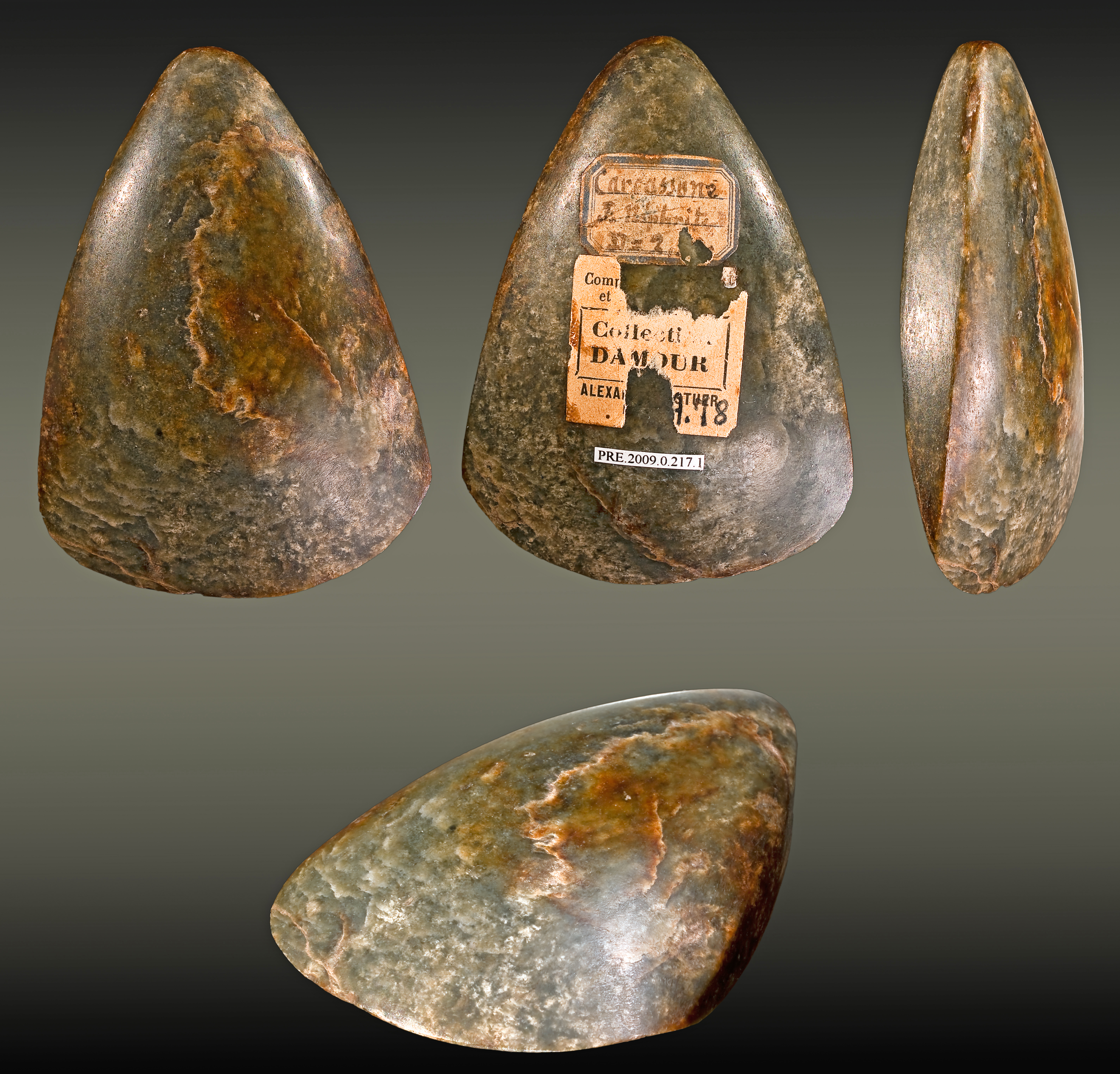 Different views of the same specimen. Different views of the same specimen.